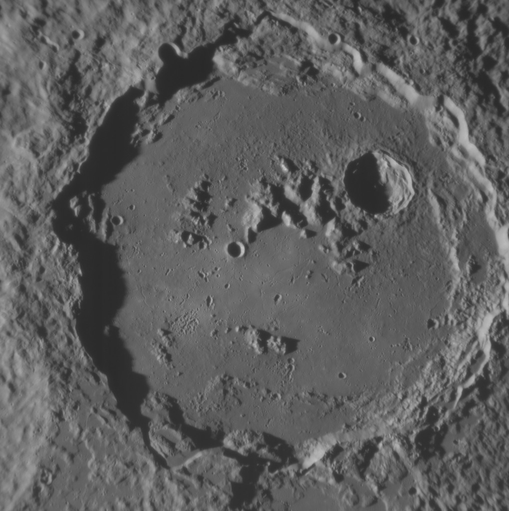 Magritte crater on Mercury. MESSENGER Narrow Angle Camera. North is at top. Emission Angle: 21.3 Incidence Angle: 80.8 Latitude: -72.6 Longitude: 122.2 Phase Angle: 73.3